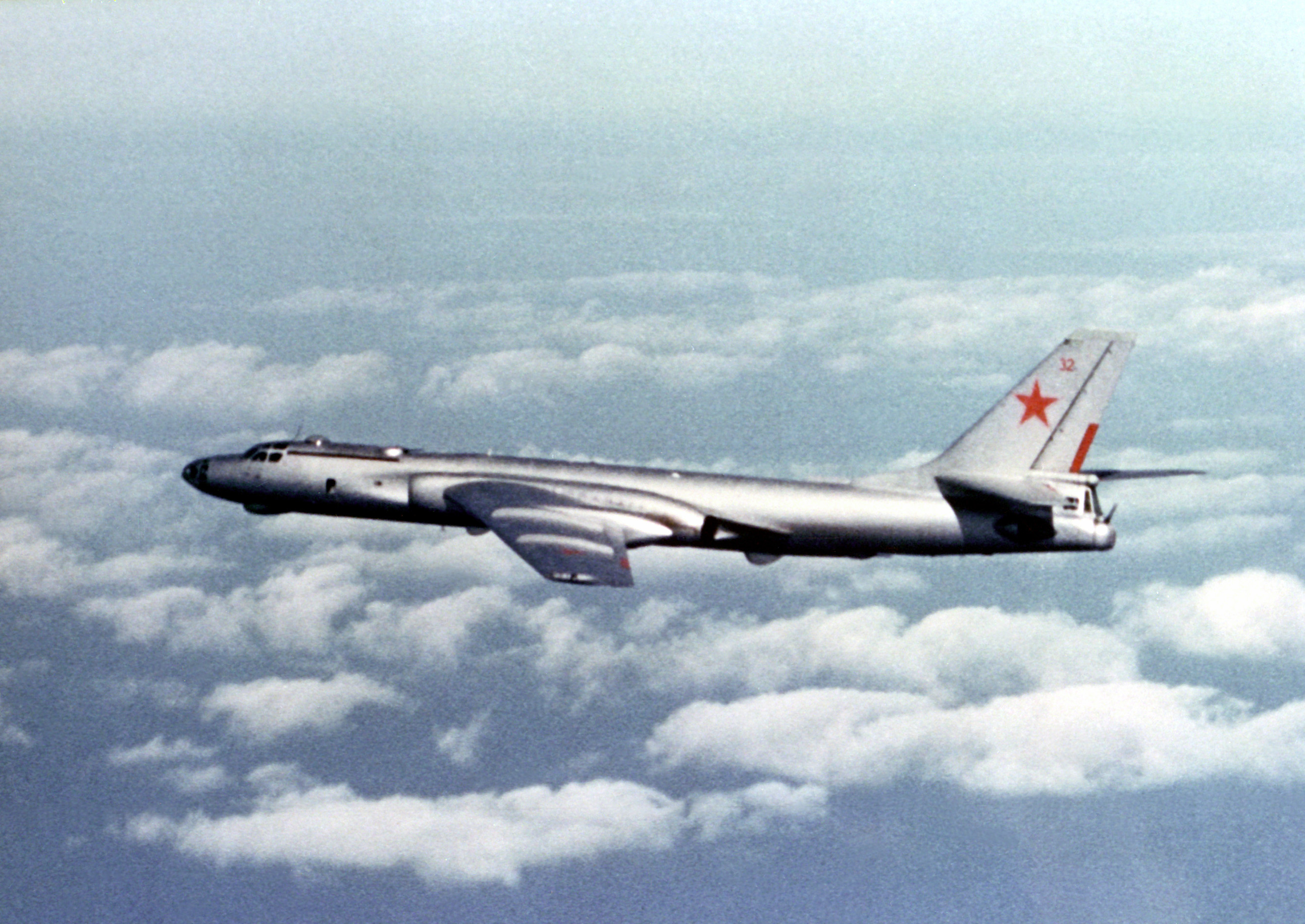 Soviet maritime reconnaissance vaiant of Tupolev Tu-16 (Badger), most likely Tu-16R (Badger E) Original comment: Air-to-air left side view of a Soviet TU-16 Badger E aircraft.